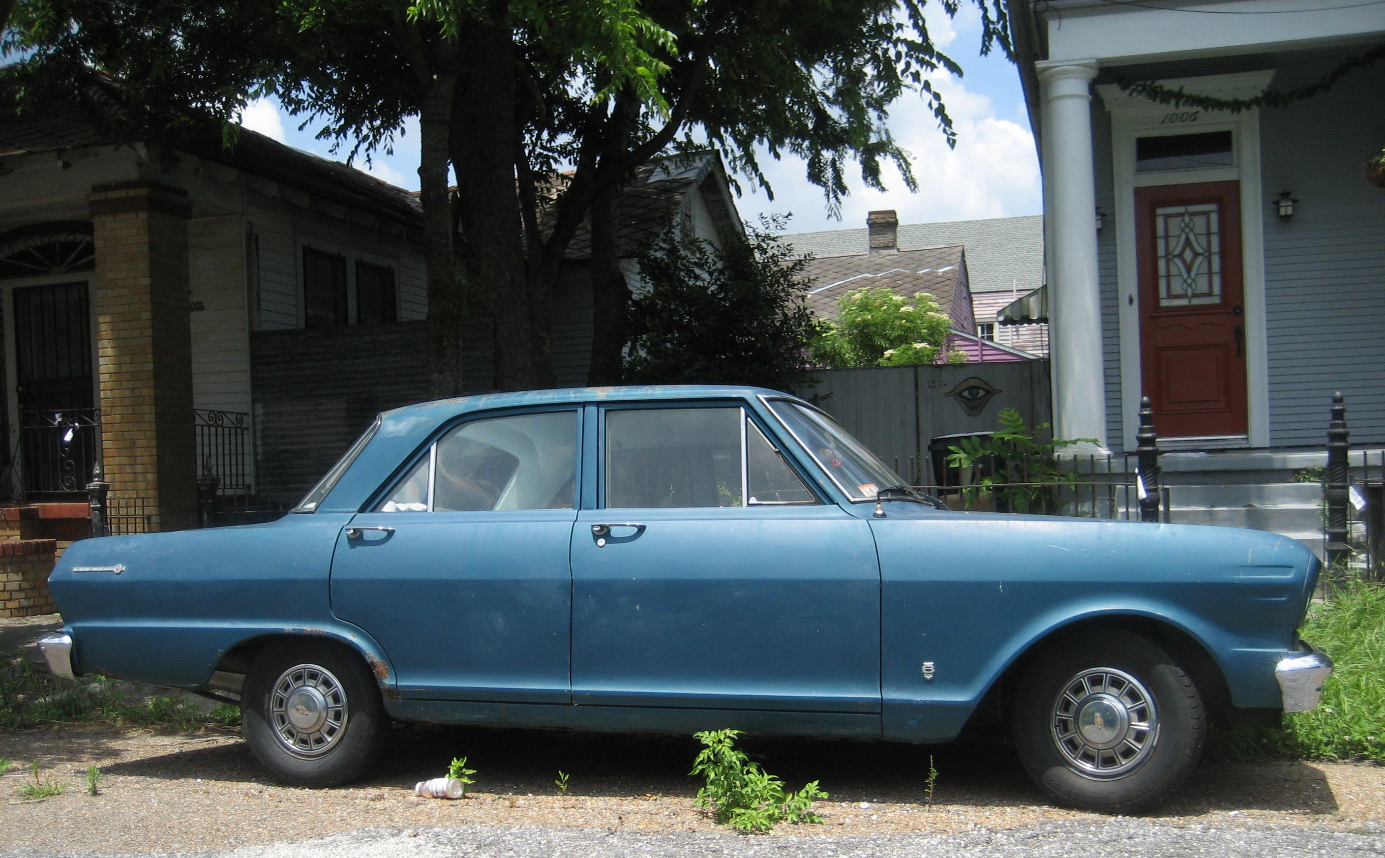 Chevy II 100 seen on street in Bywater section of New Orleans. The fence keeps an eye on it.